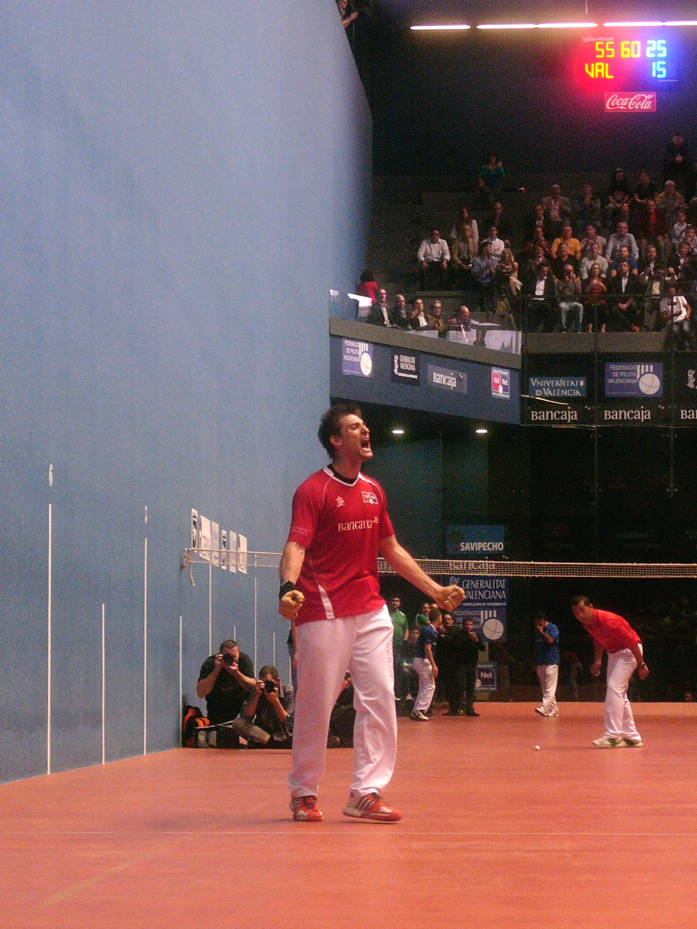 Valencian pilotaire Soro III right after winning the final of the XXVII Campionat Individual d'Escala i Corda in Montcada